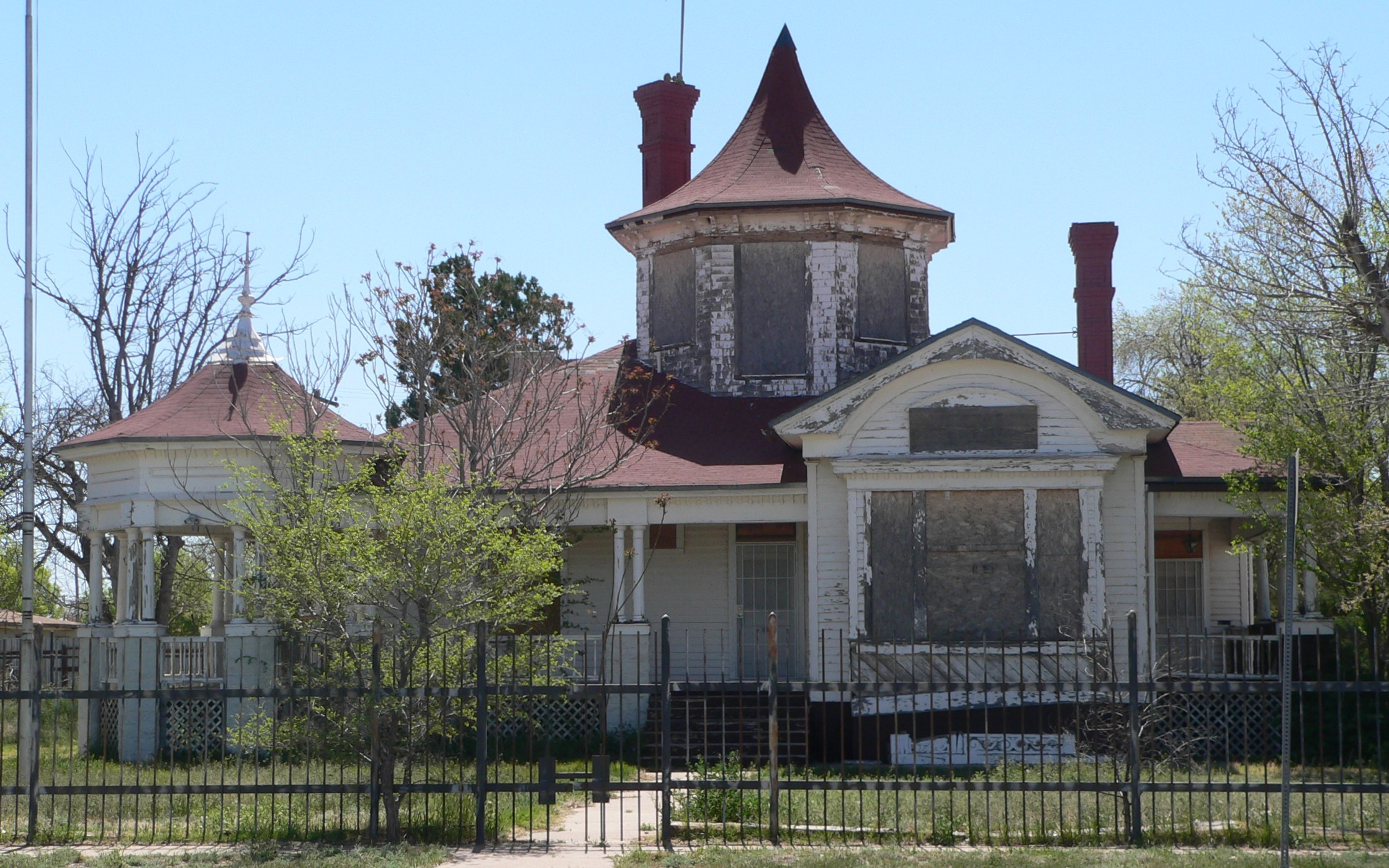 Saunders-Crosby house, at southeast corner of Deming Street and Virginia Avenue in Roswell, New Mexico; seen from the north, from Deming.